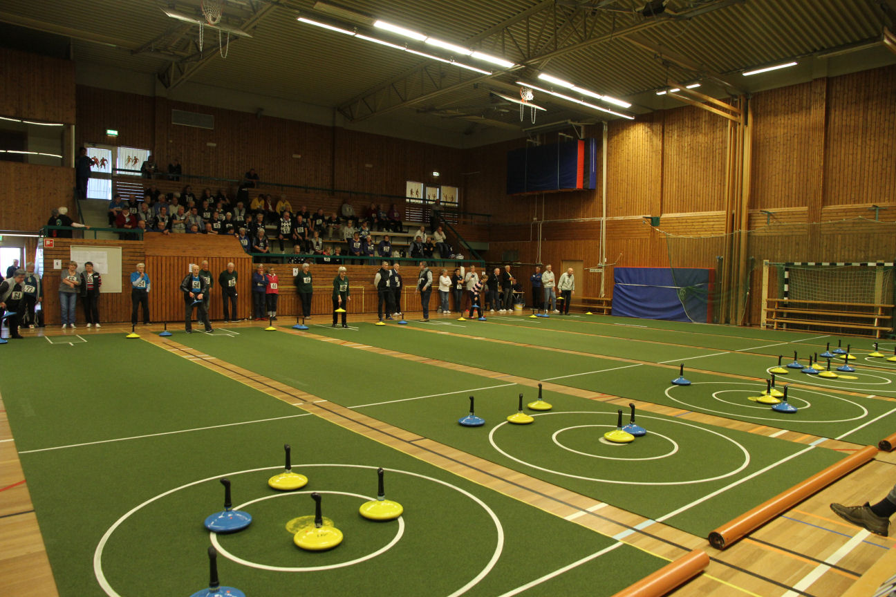 Unicurl Carpet Curling, Sweden